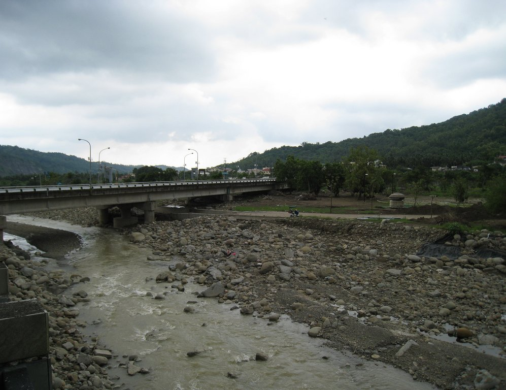 The former Jiaxian(Jiashian) Bridge pass over the Nanzishian River. The photo was taken in Jiashian Township, Kaohsiung County, Taiwan.